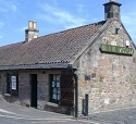 Bennie Museum